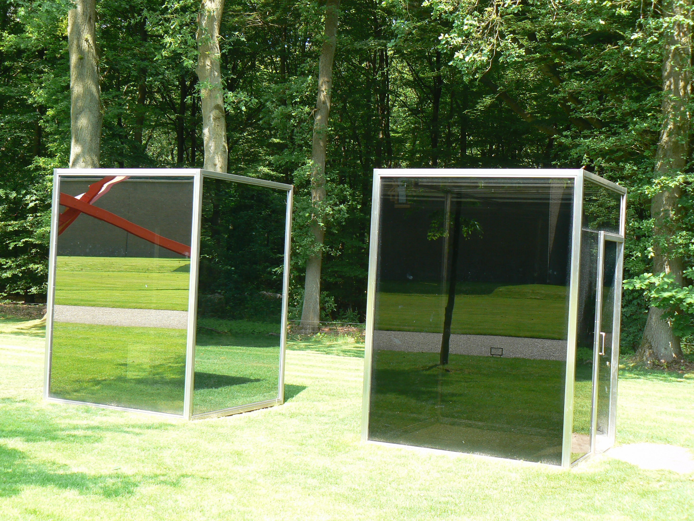 sculpture Two adjacent pavillions (1978/2001) by Dan Graham in sculpturepark KMM/The Netherlands